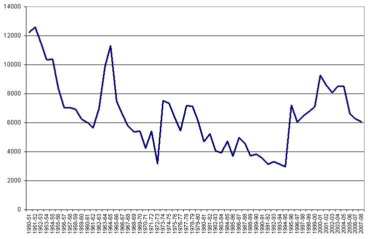 Graph of Gillingham F.C. average crowds since 1950, made by myself in Excel